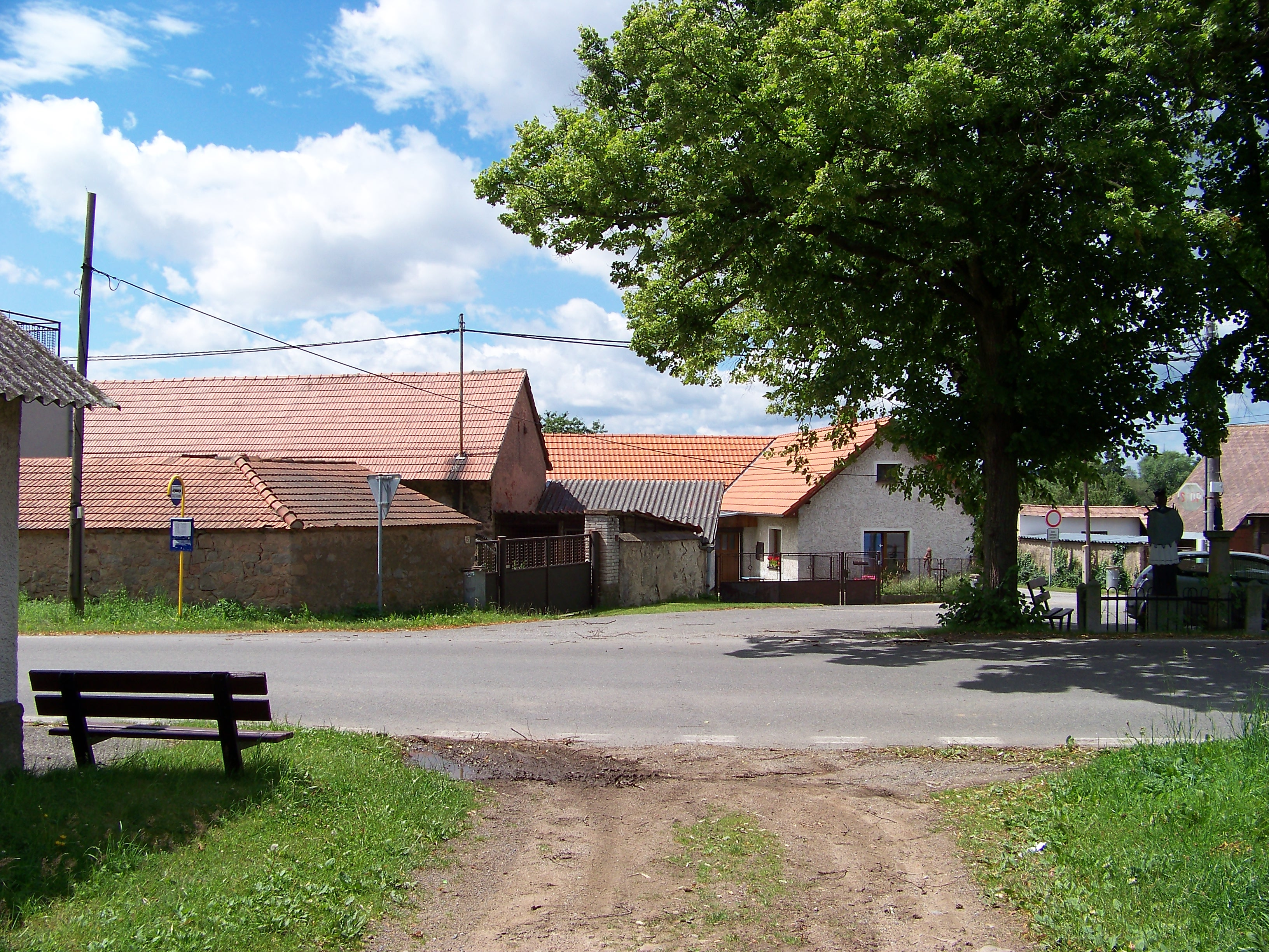 Milín-Buk, Příbram District, Central Bohemian Region, the Czech Republic. A common.